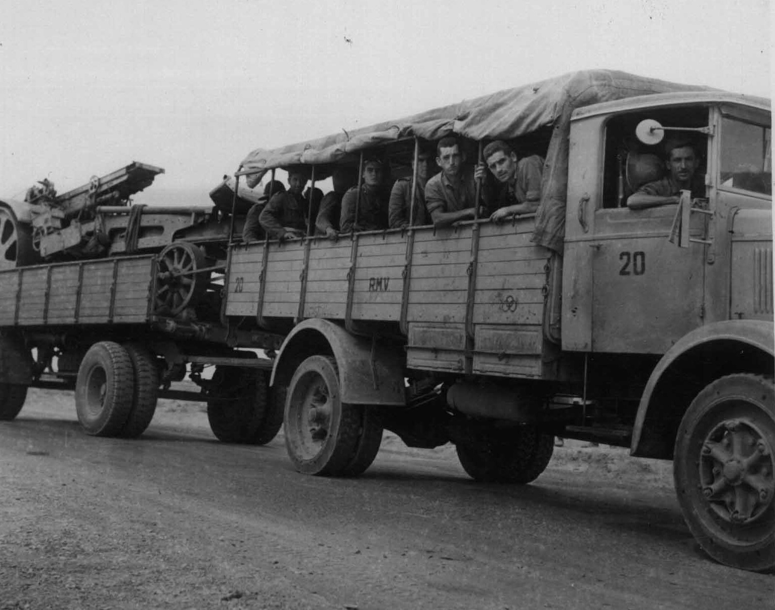 Arrival of an Italian military convoy in Tobruch in 1941